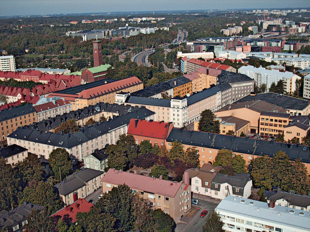 Vallila on the front, Hermanni on the right, Kumpula at the back and Arabia (Toukola) at the back right